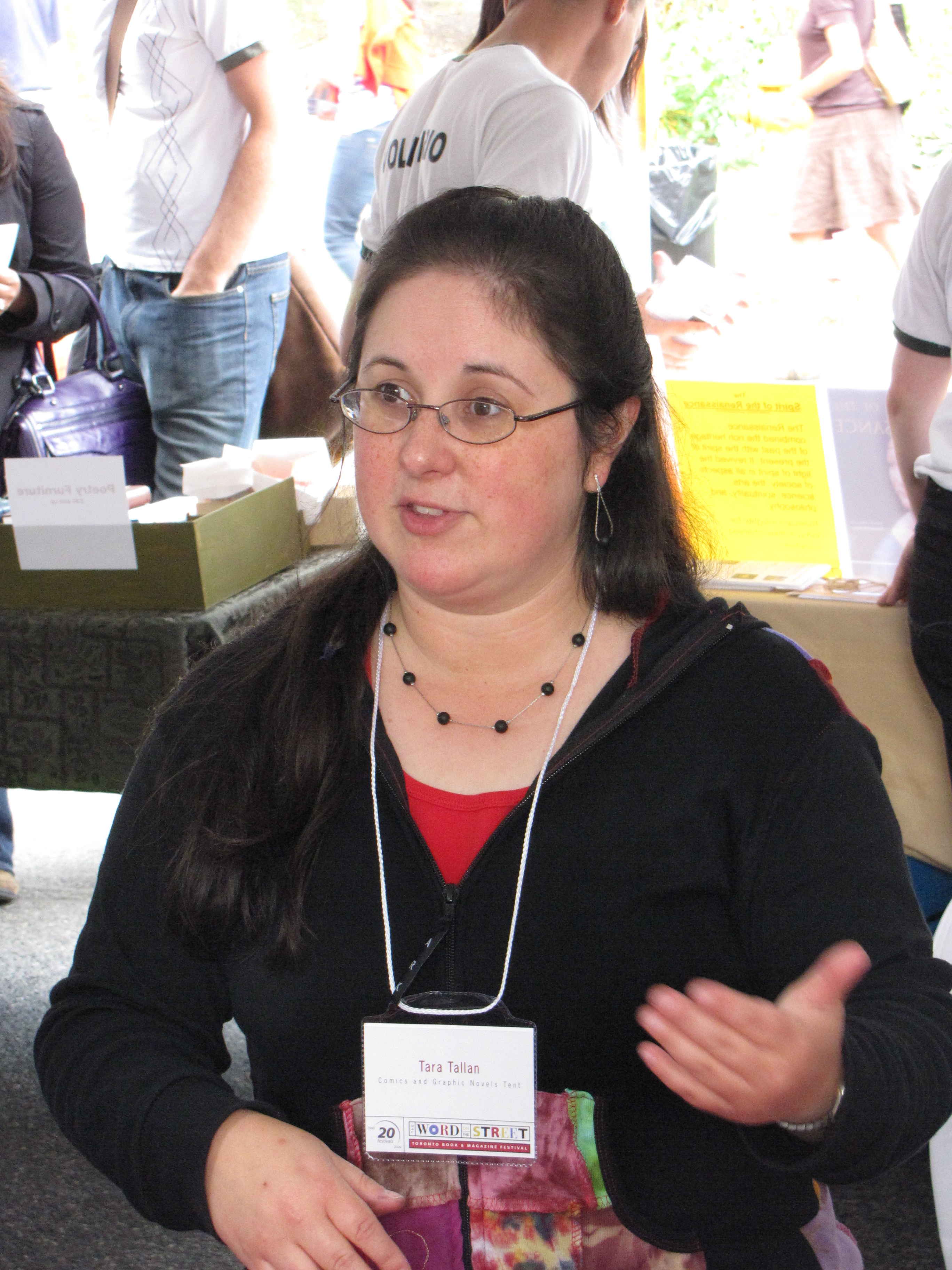 Canadian graphic artist Tara Tallan, creator of the comic Galaxion at the Toronto Word on the Street event